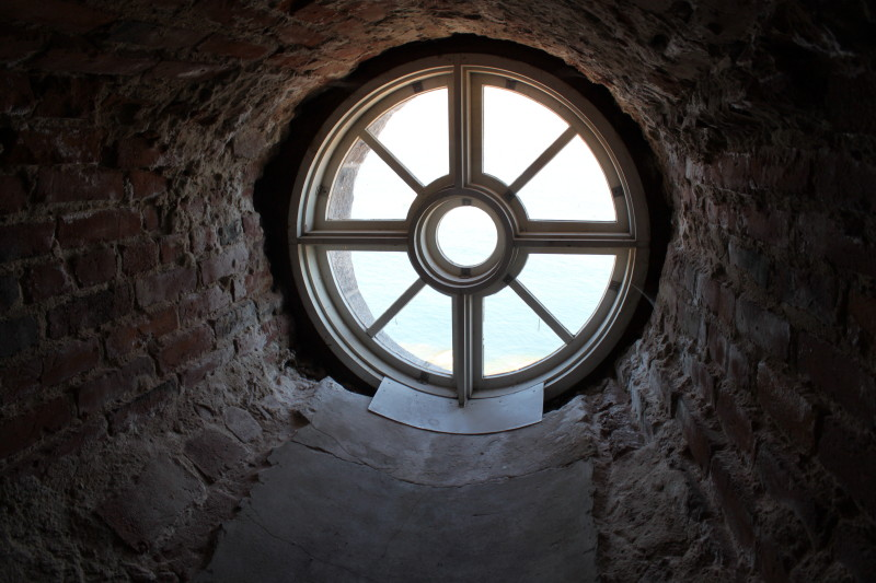 Beautiful window inside the Bengtskär lighthouse stairwell.